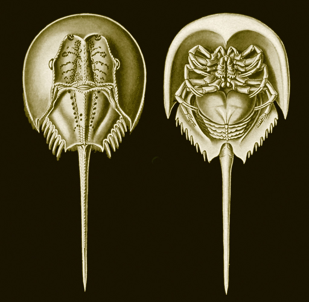 Limulus moluccanus (Clusius) = Tachypleus gigas (Müller, 1785), adult male from above (left) / below (right)